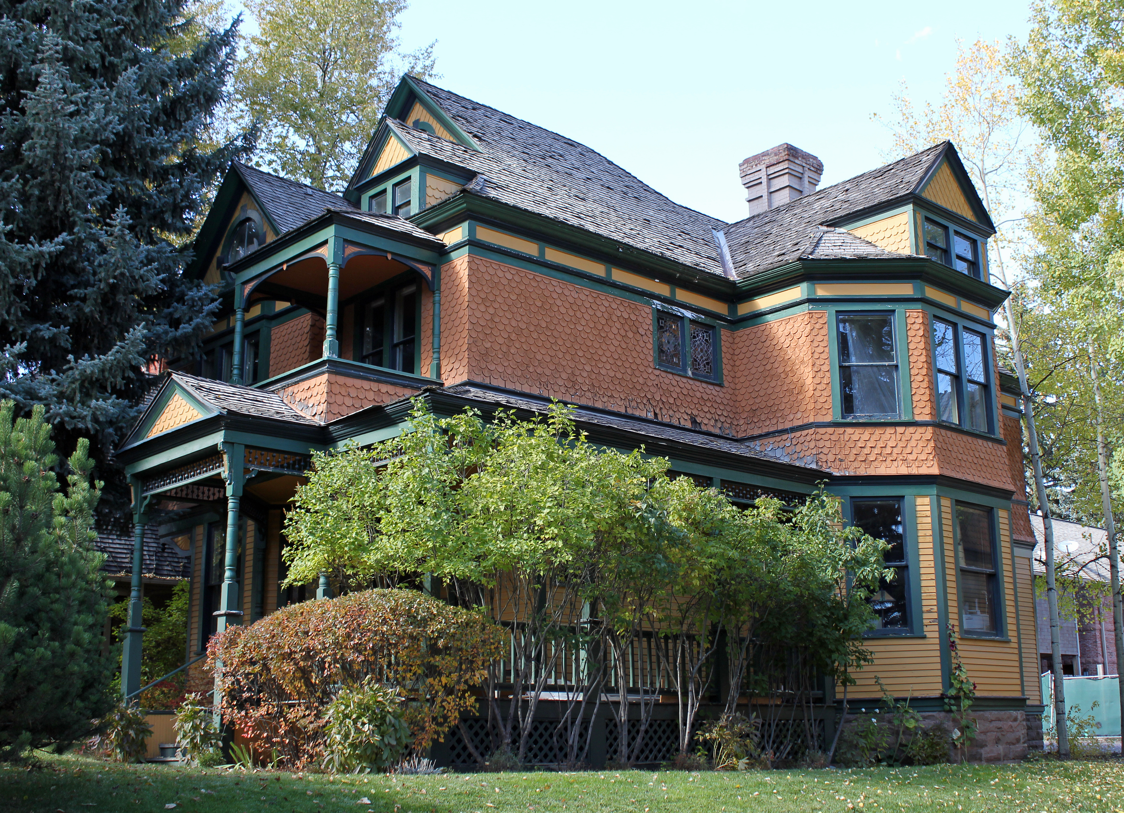 The Smith-Elisha House, located at 320 West Main Street in Aspen, Colorado. The property is listed on the National Register of Historic Places.